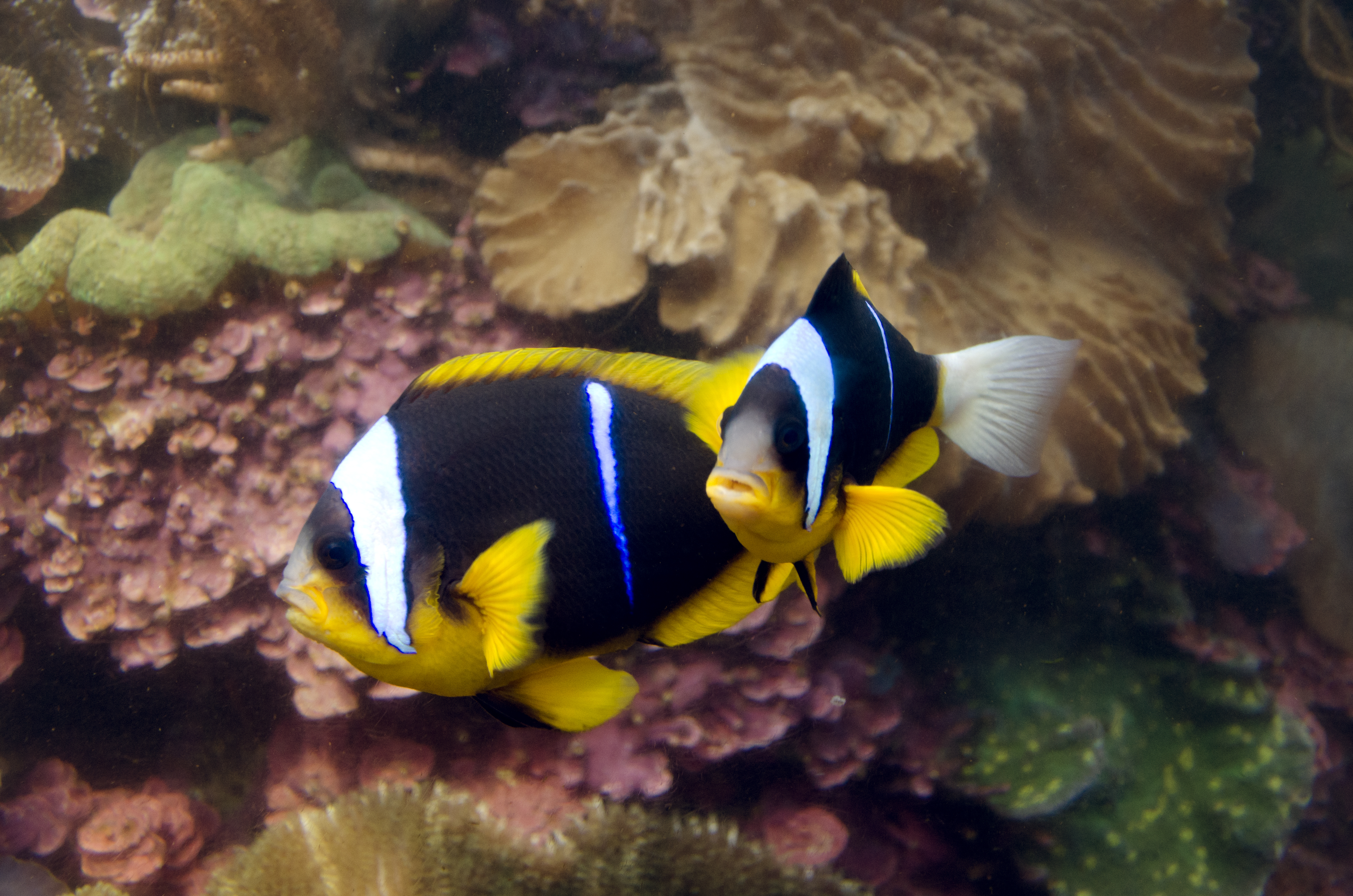 Amphiprion allardi in the UShaka Marine World Durban